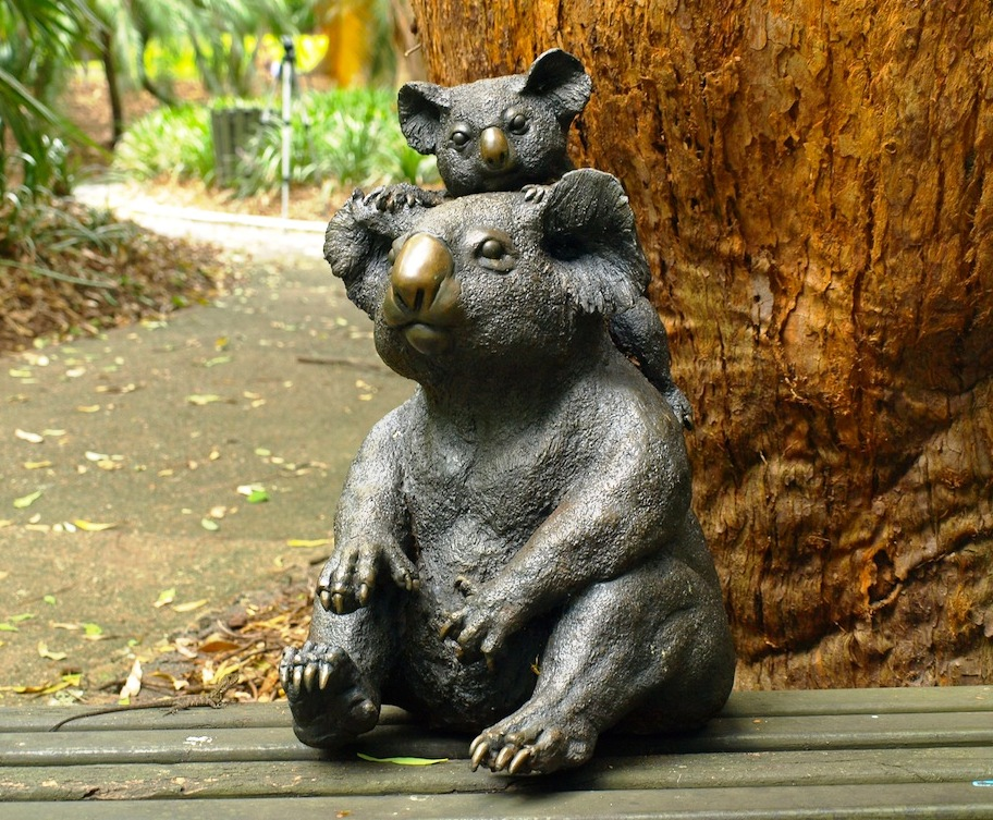 Amy and Oliver the bronze koalas (by artist Glenys Lindsay) act as guardians of the Exotic Rainforest at the Brisbane Botanic Gardens Mt Coot-tha.